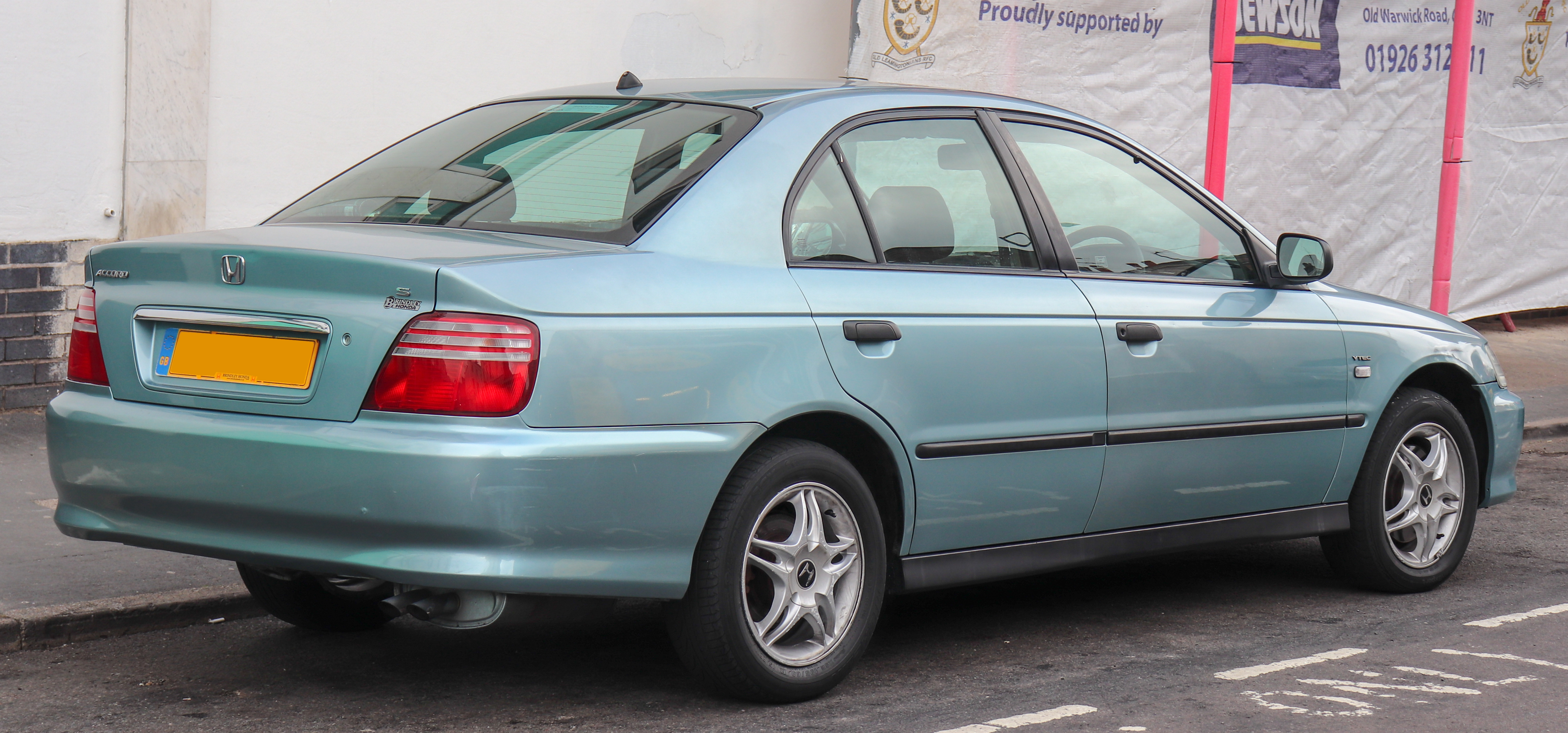 2002 Honda Accord VTEC S 1.9 Rear Taken in Leamington Spa